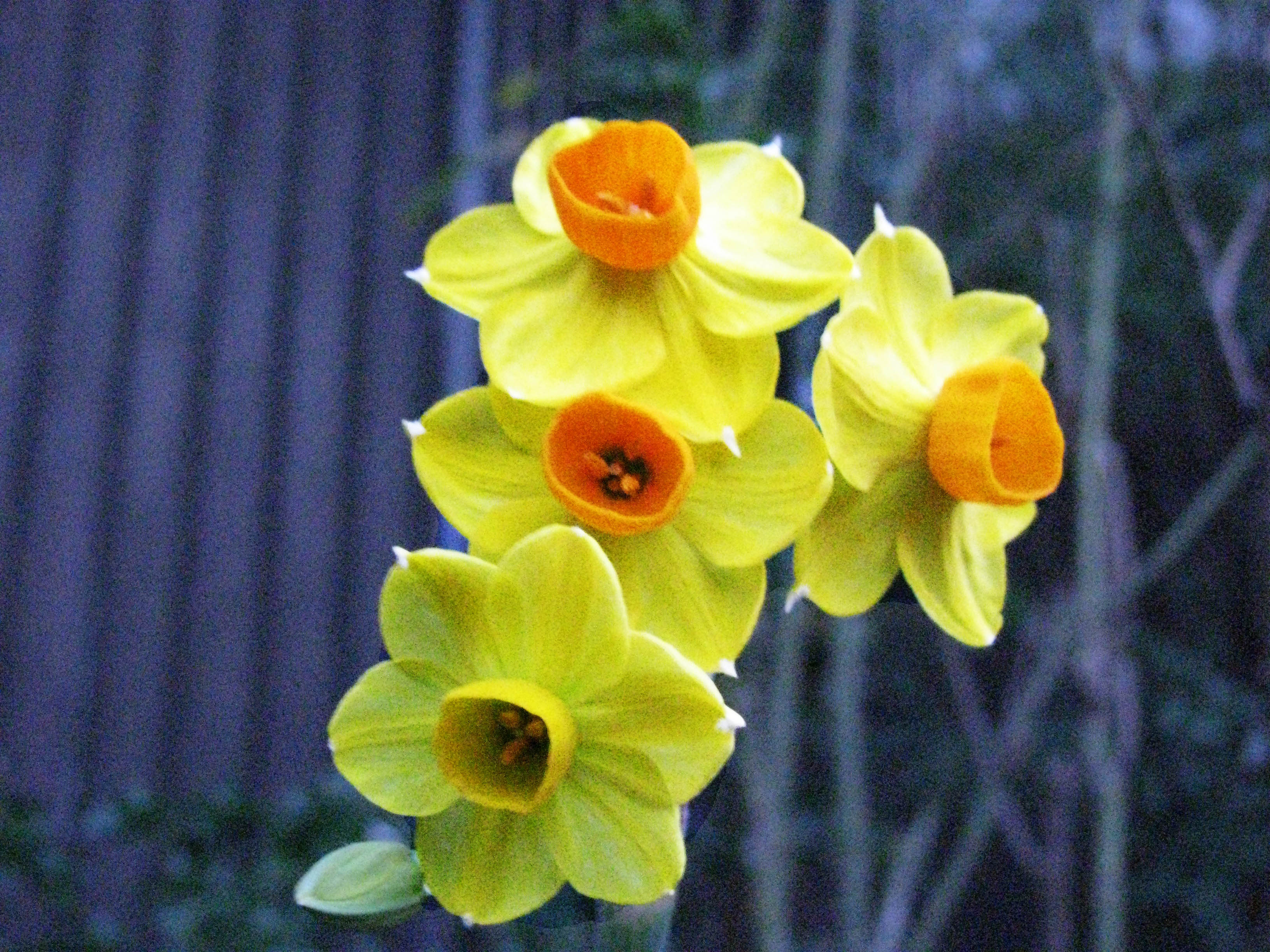 Jonquils, of the Genus Narcissus